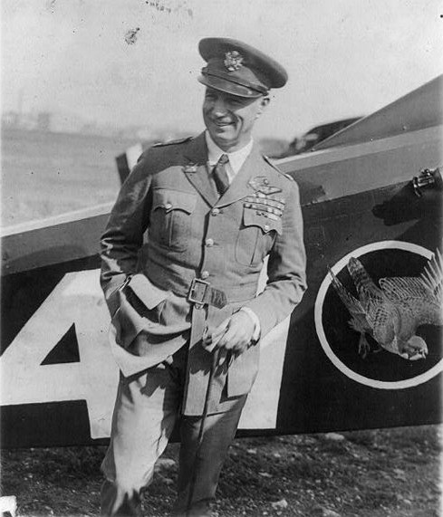 William Lendrum "Billy" Mitchell (1879 – 1936), American general, the father of the U.S. Air Force.